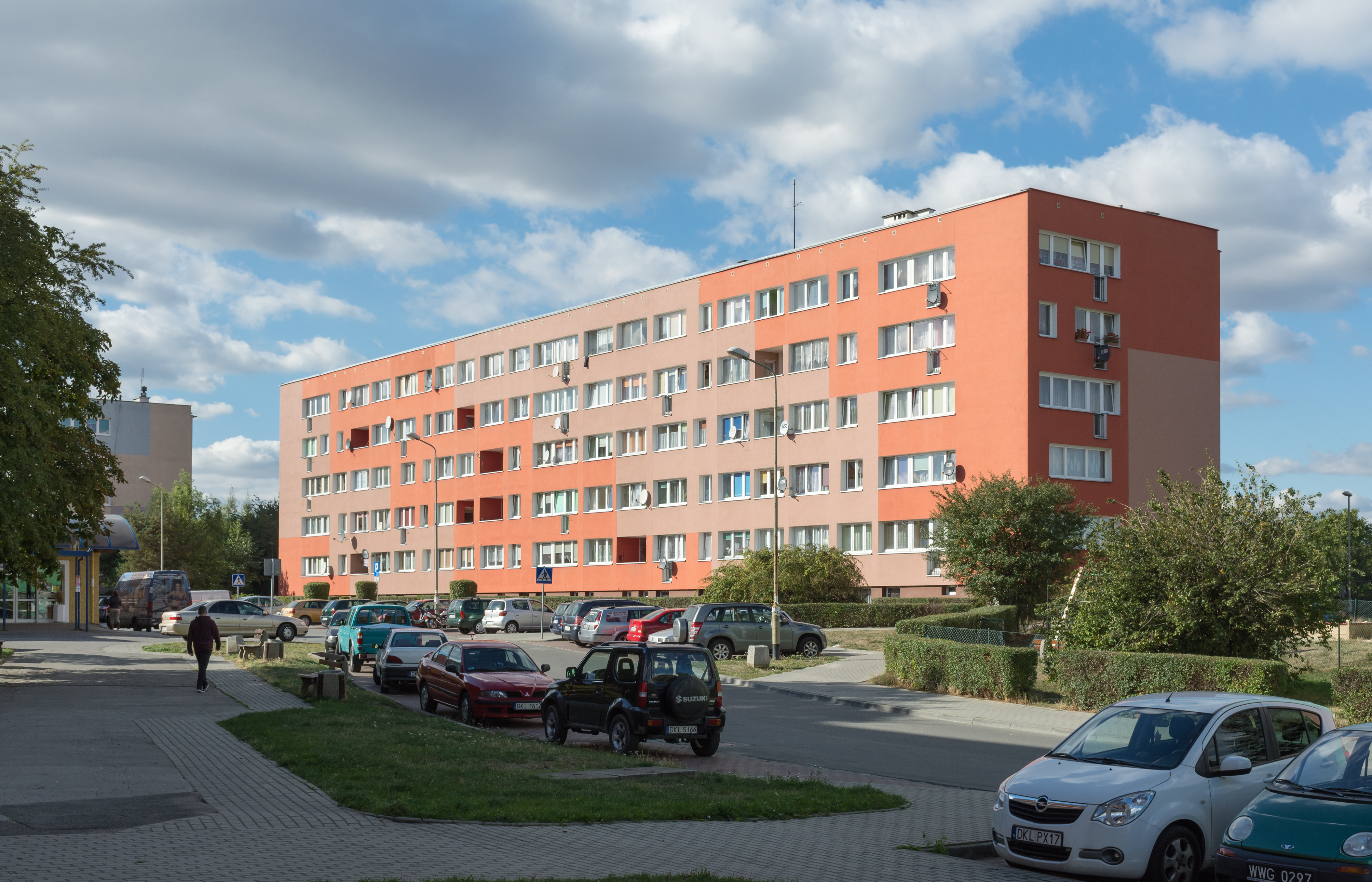 Św. Wojciecha Street in Kłodzko